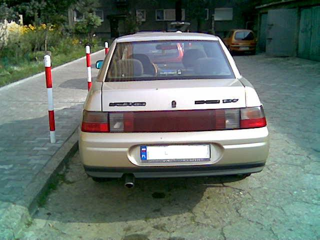 Lada 110 seen in Warsaw. Picture taken by mobile phone